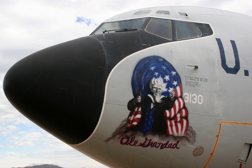 "Old Grandad' March Field Museum, Riverside (California)